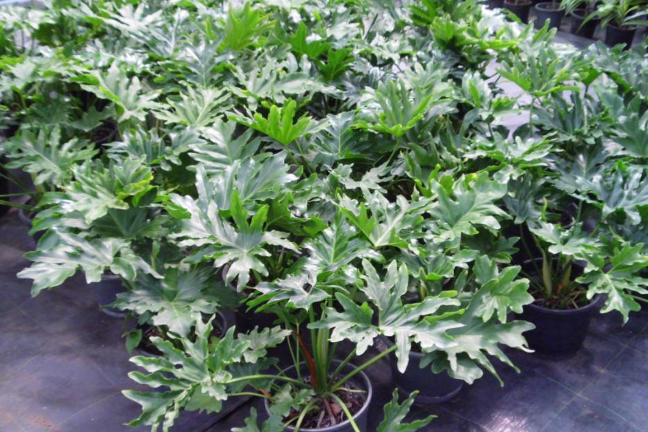 selloum - this photo taken at Orman garden - Cairo